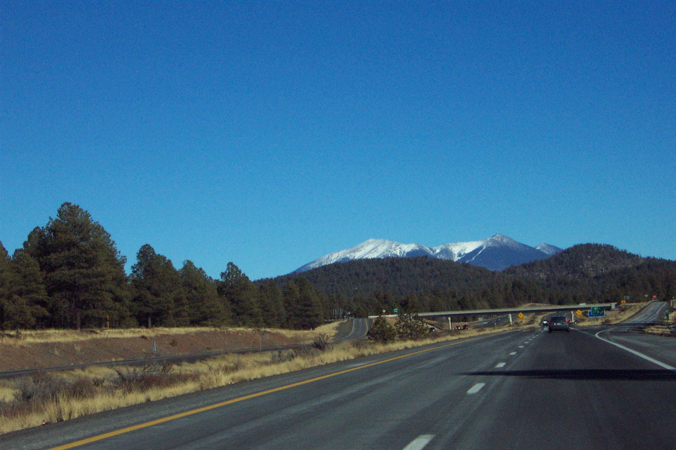 The San Francisco Peaks above Flagstaff can be seen from quite some distance along I-40. Exit 178, Garland Prairie Rd, just south of Parks, Arizona.